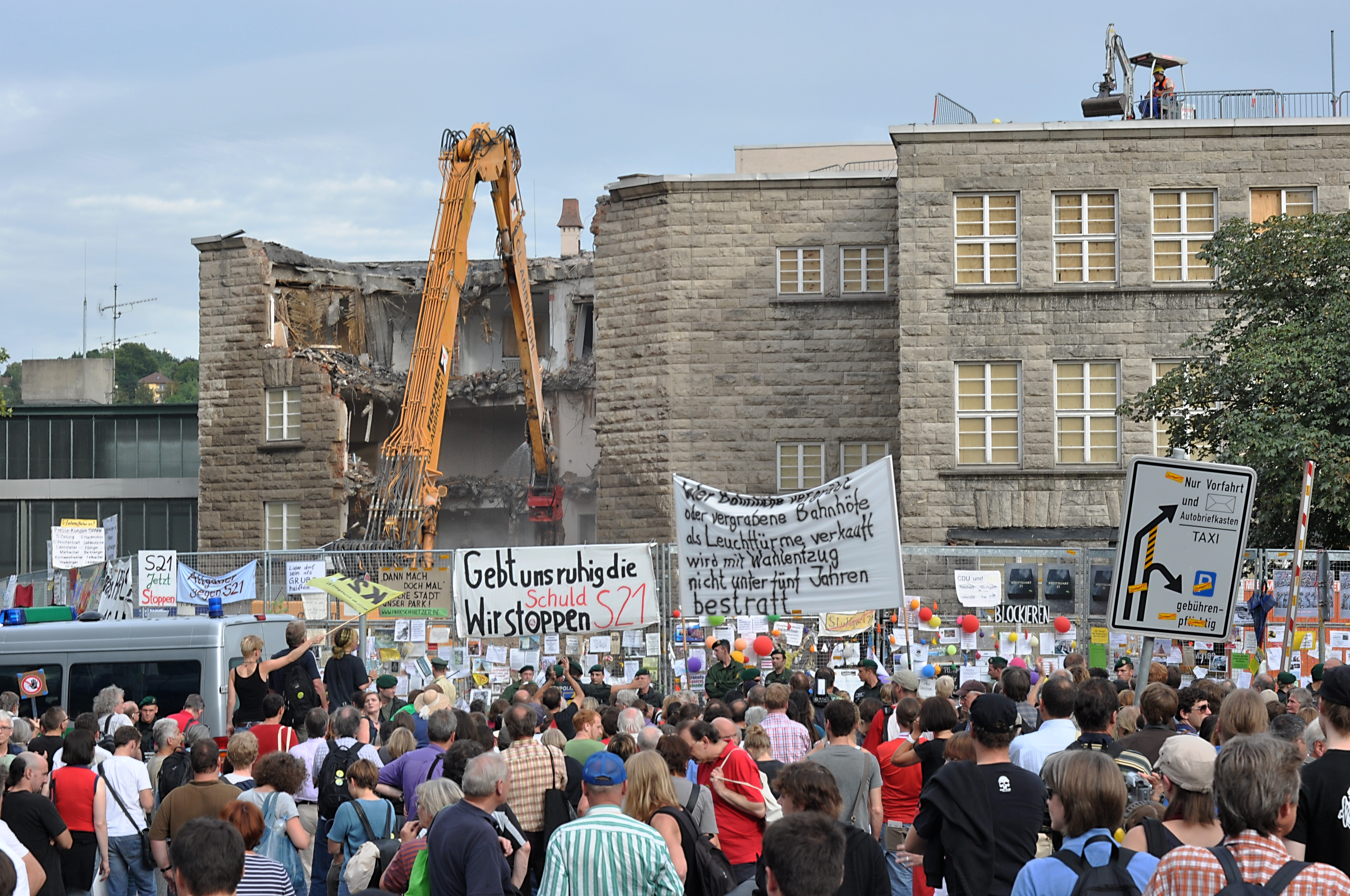 Demolition works and protest demonstration at the north wing of Stuttgart Central Station